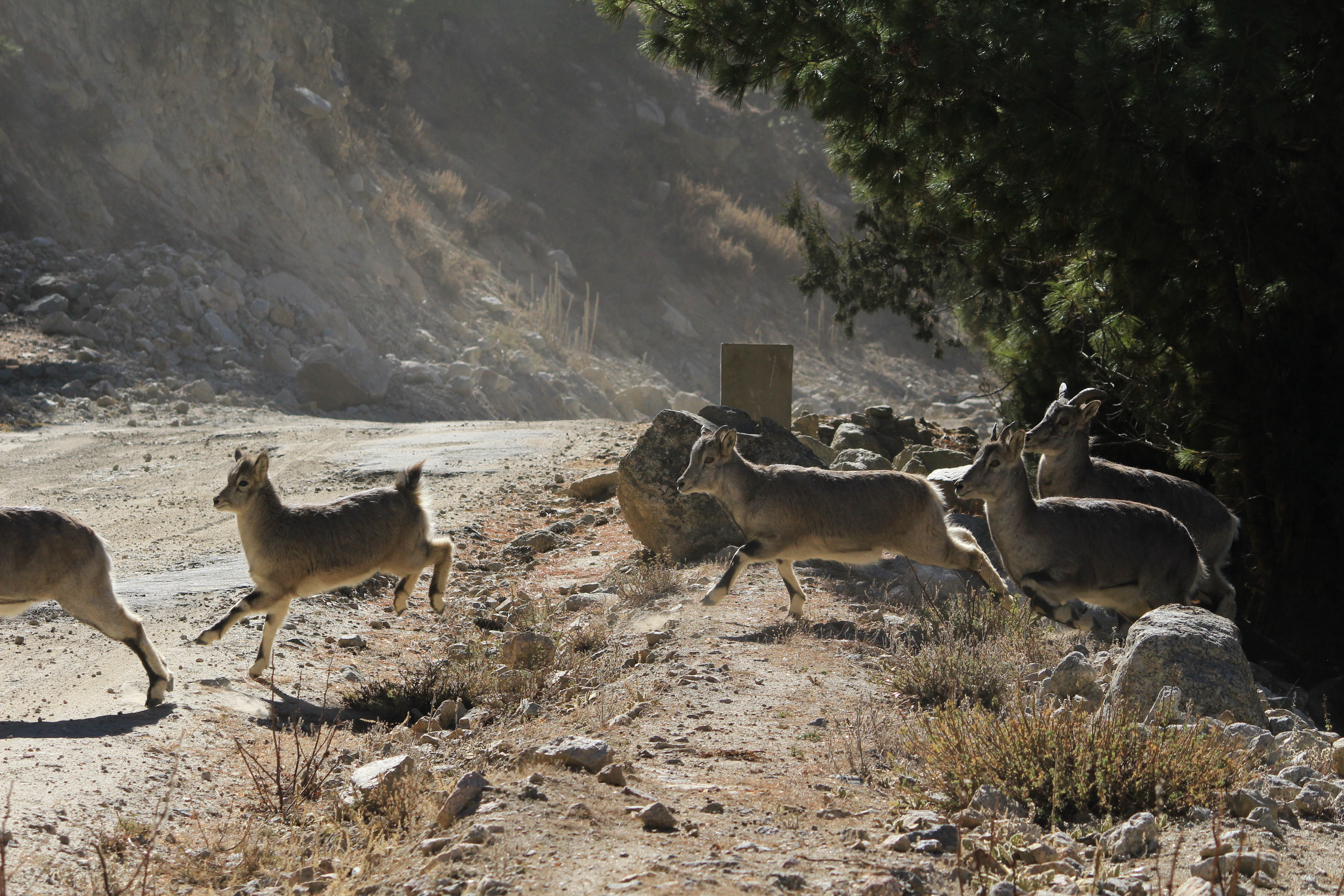 Very rare glimpse of endangered species of Himalayan buck / musk beer near Nelong in Gangotri National Park (on Nelong - Naga Road), Uttarakhand, India. These animals can climb up the steep Himalayan mountains with unbelievable ease. Took these photographs when I was posted there serving Border Roads organization, Govt of India. Took me 3 months though to photograph them since very rarely these bucks come across humans and if sense human approach, run away within eye flash.